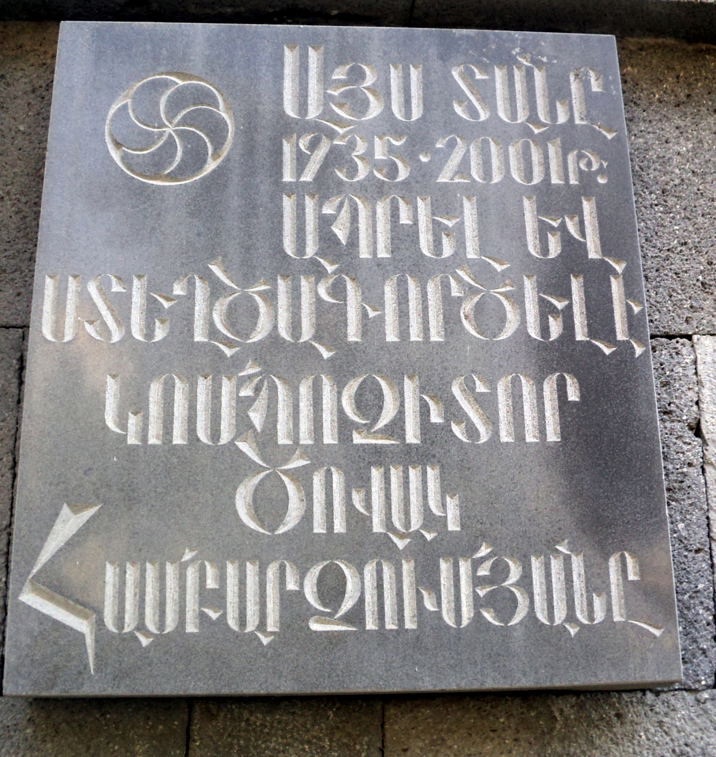 Ծովակ Համբարձումյանի հուշատախտակը Երևանում